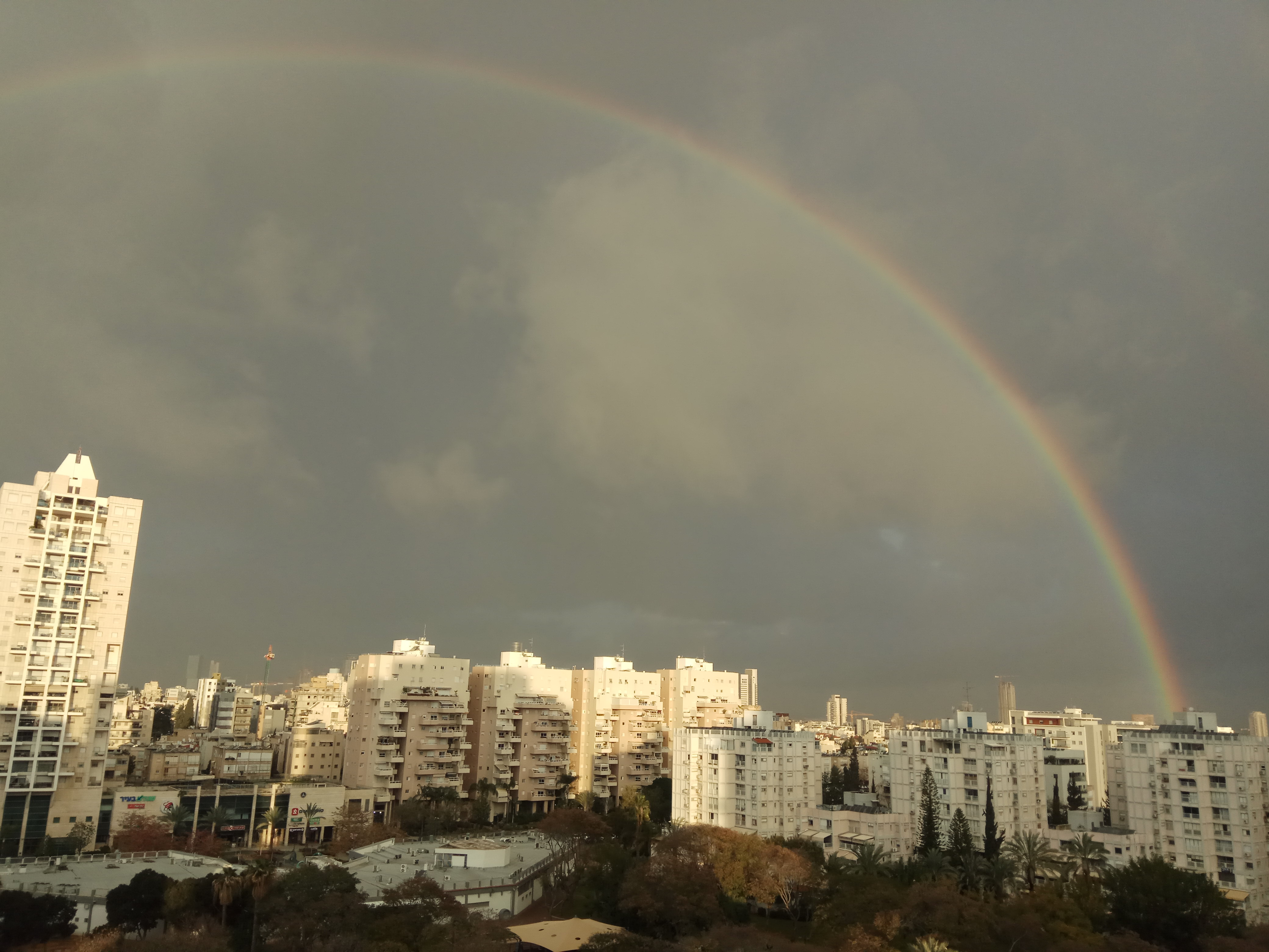 Rainbow in Ramat Gan